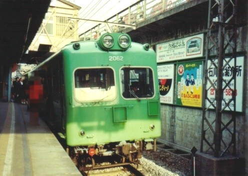 Keio2062 Sengawa station 1984-03-09